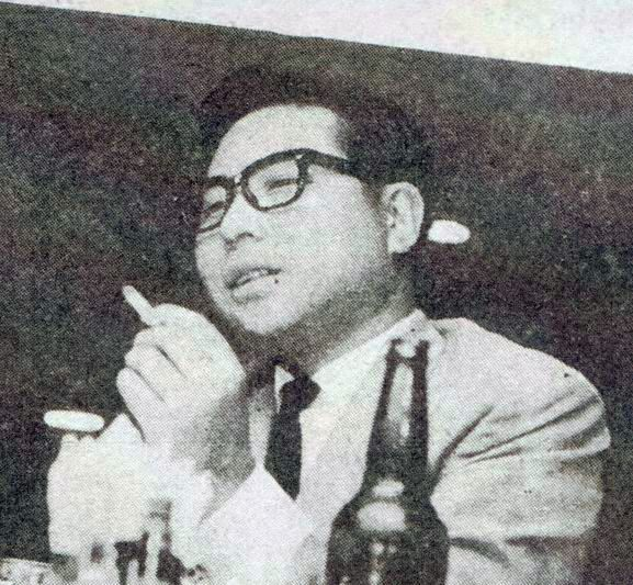 Kyosen Oohashi